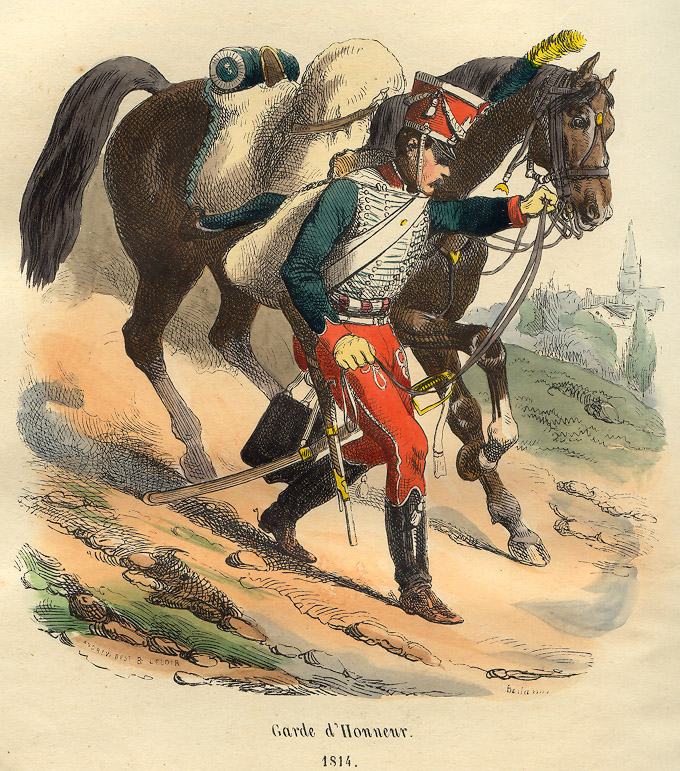 Honour guard from the Grande Armée. From book of P.-M. Laurent de L`Ardeche «Histoire de Napoleon», 1843